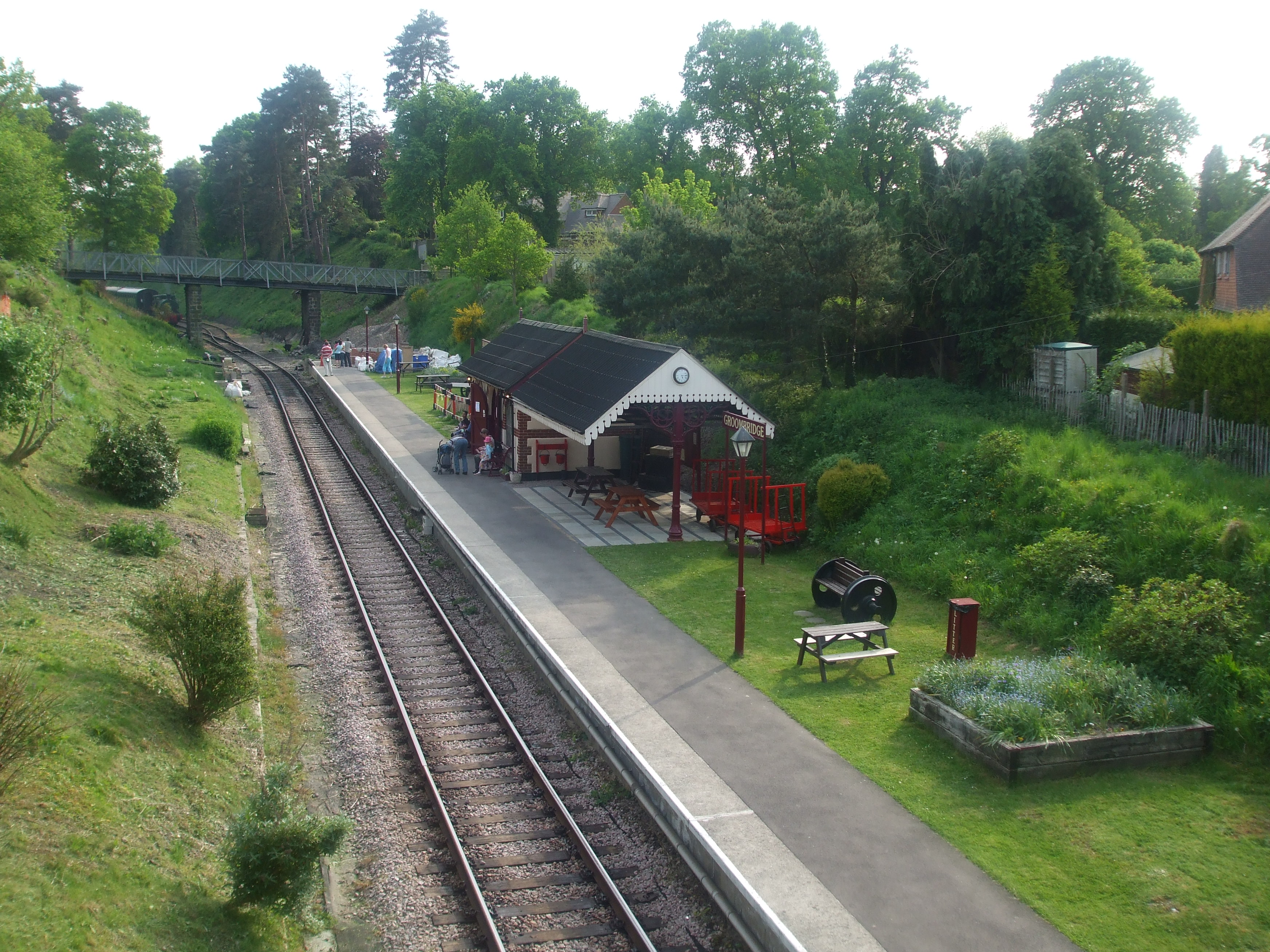 Groombridge Railway Station, Kent